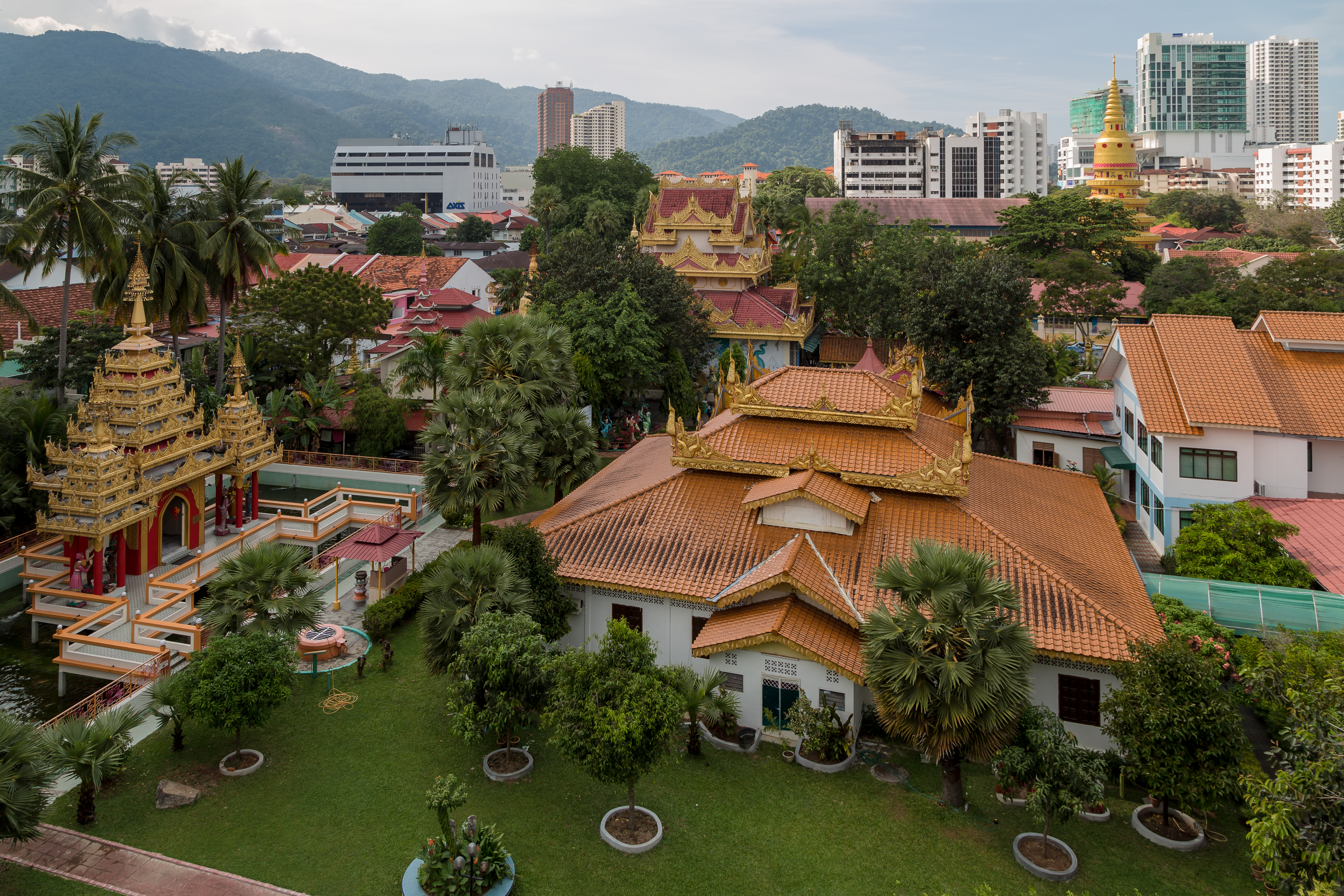 Penang, Malaysia: Dhammikarama Burmese Buddhist Temple, view from Pagoda